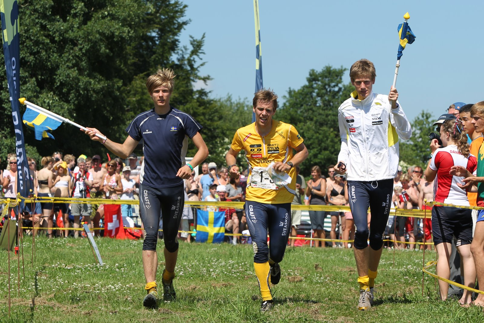 Sweden Relay silver medal at JWOC 2010